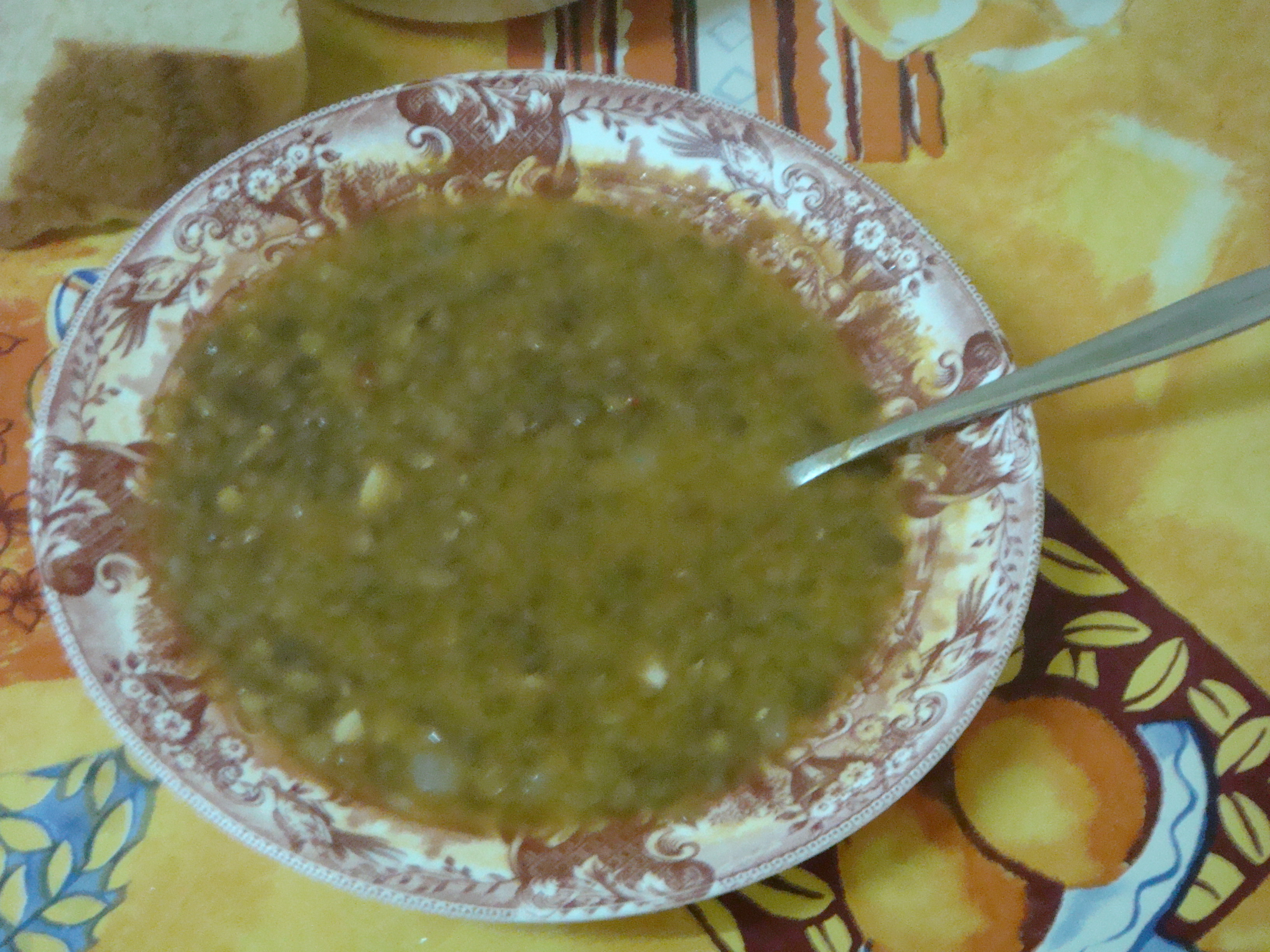 Lentils soup.